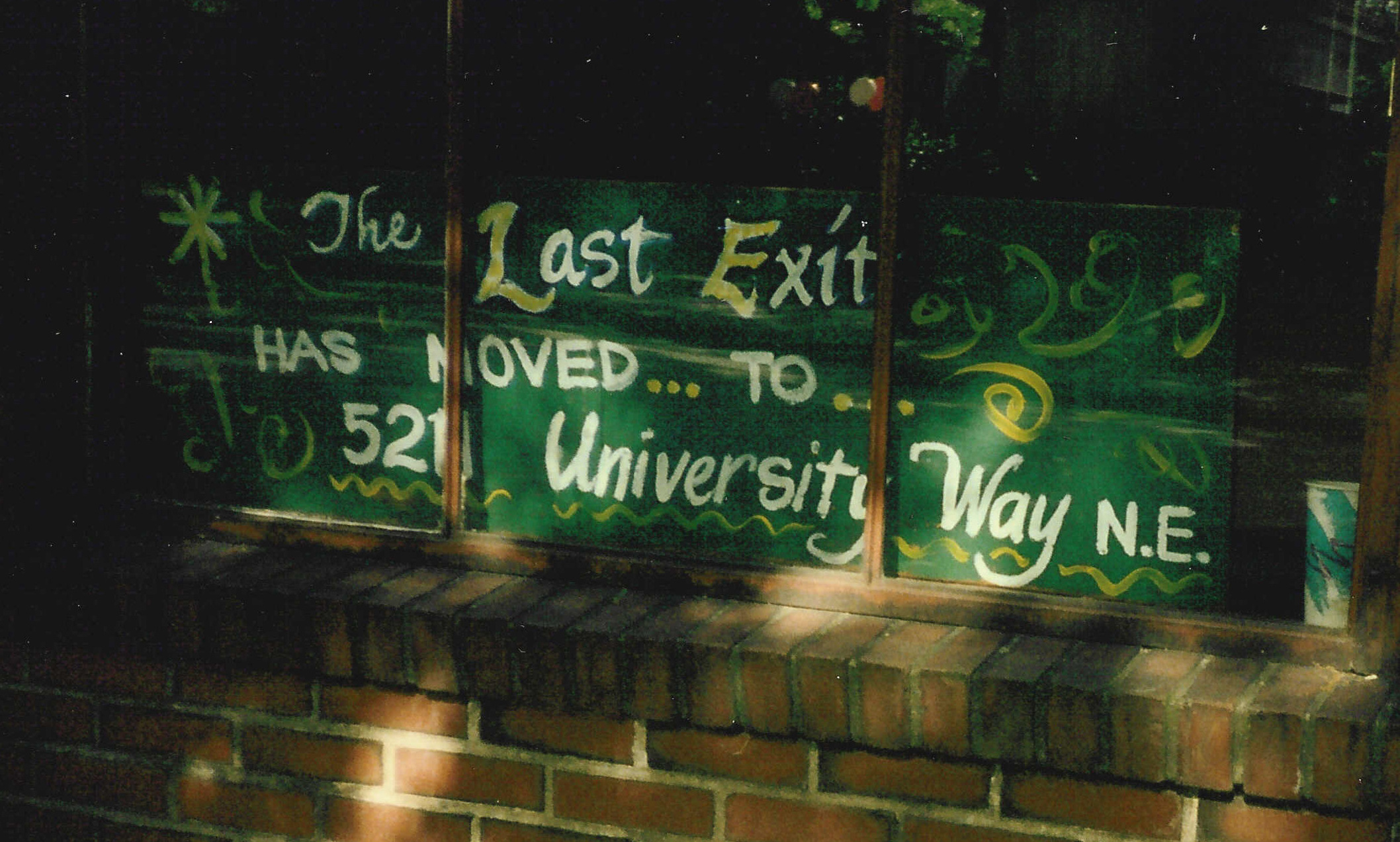 Sign indicating that the Last Exit On Brooklyn, Seattle, Washington's oldest coffeehouse at the time (now defunct), has moved. Judging by its style, the sign was probably painted by Seattle artist Eddie Walker.